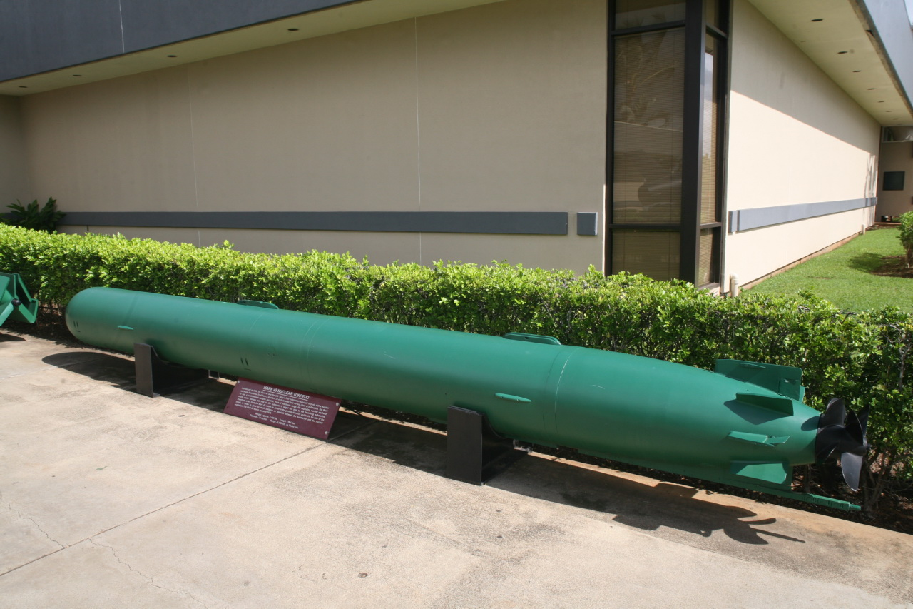 The Mark 45 anti-submarine torpedo, a.k.a. ASTOR, was a weapon of the United States Navy designed for combat against high-speed, deep-diving enemy submarines, which incorporated a nuclear warhead. The warhead used in ASTOR had an explosive yield of 11 kilotons. See also Mark 45 torpedo. This example is on display at in Aiea, Hawaii, United States.